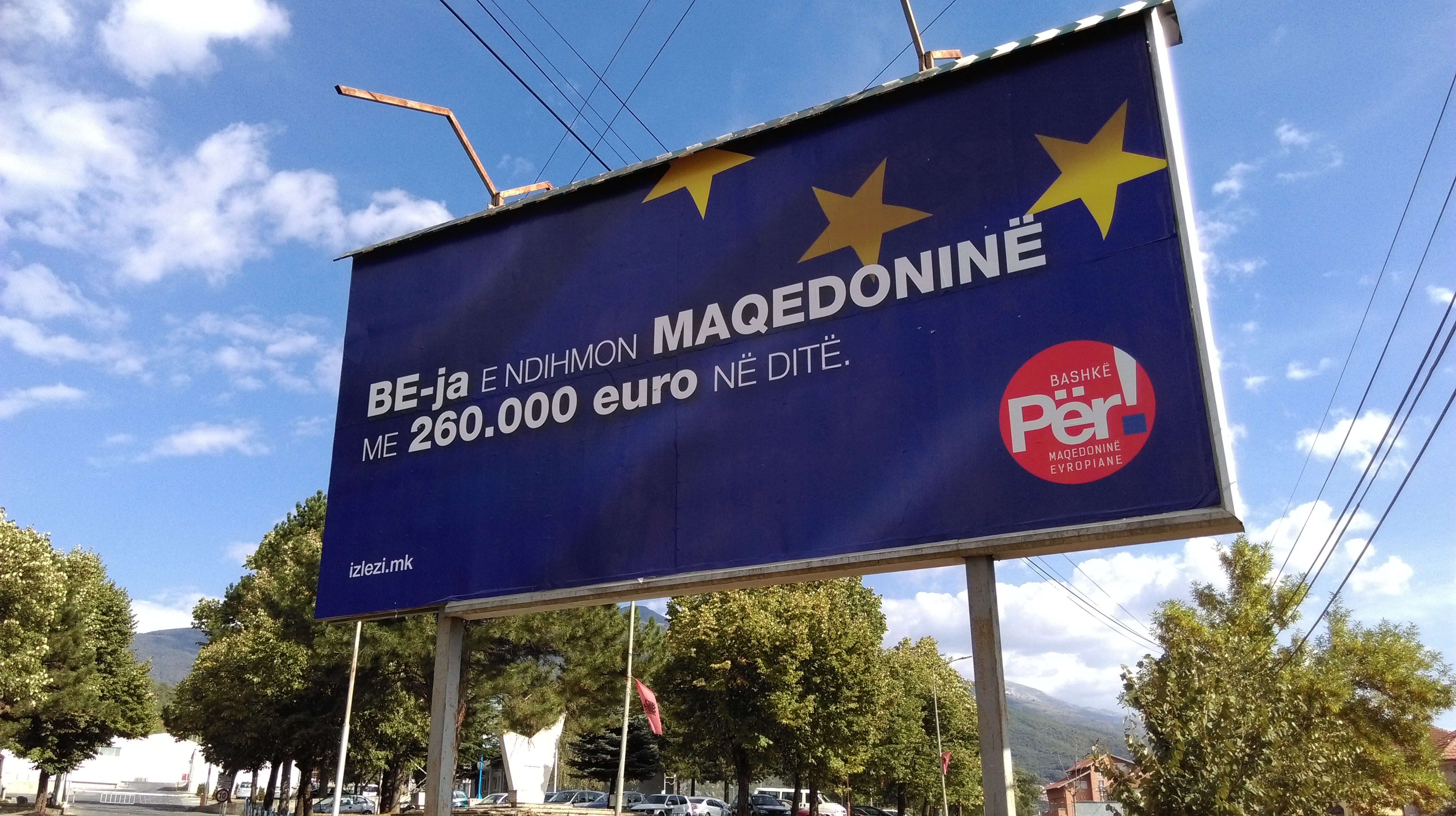 Pro Macedonian referendum billboard in Debar written in Albanian